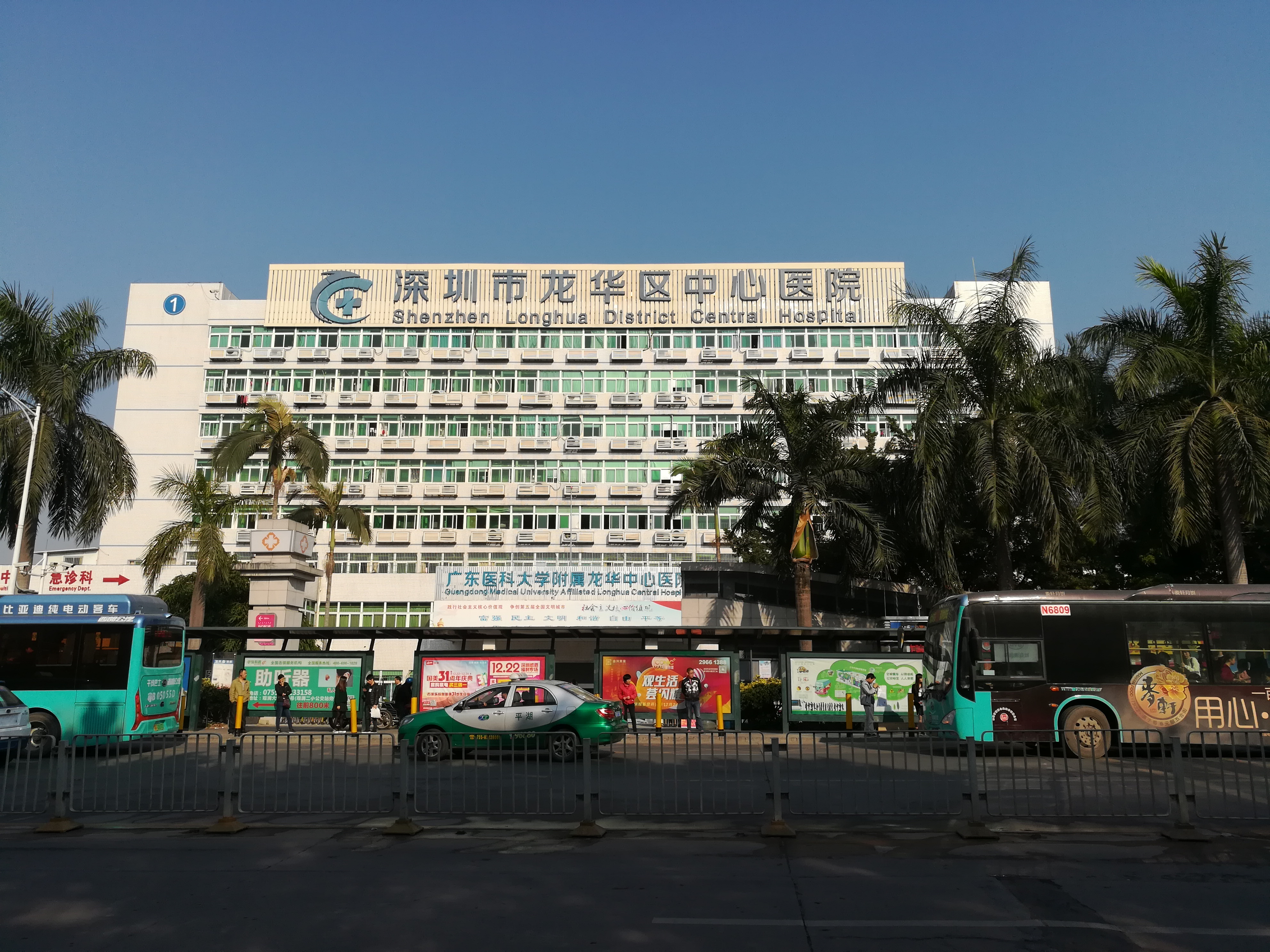 Photo taken on December 24, 2017 shows the Longhua Central Hospital in Shenzhen, south China's Guangdong province.